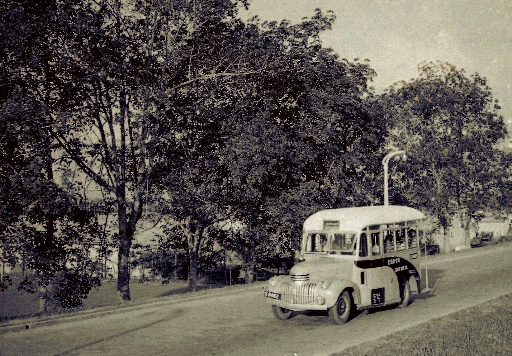 Bus heading toward Clementi Rd